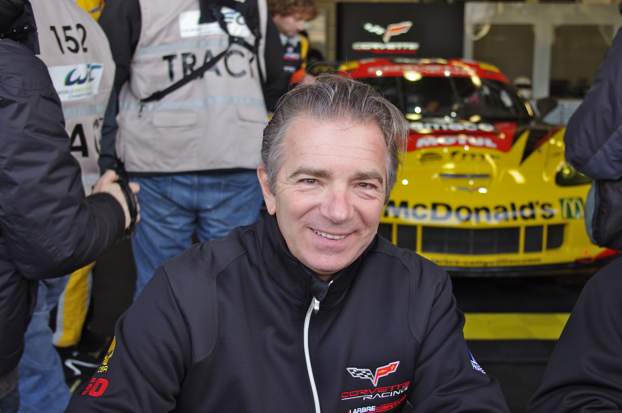 Silverstone 6 Hours 2013 FIA World Endurance Championship (WEC)